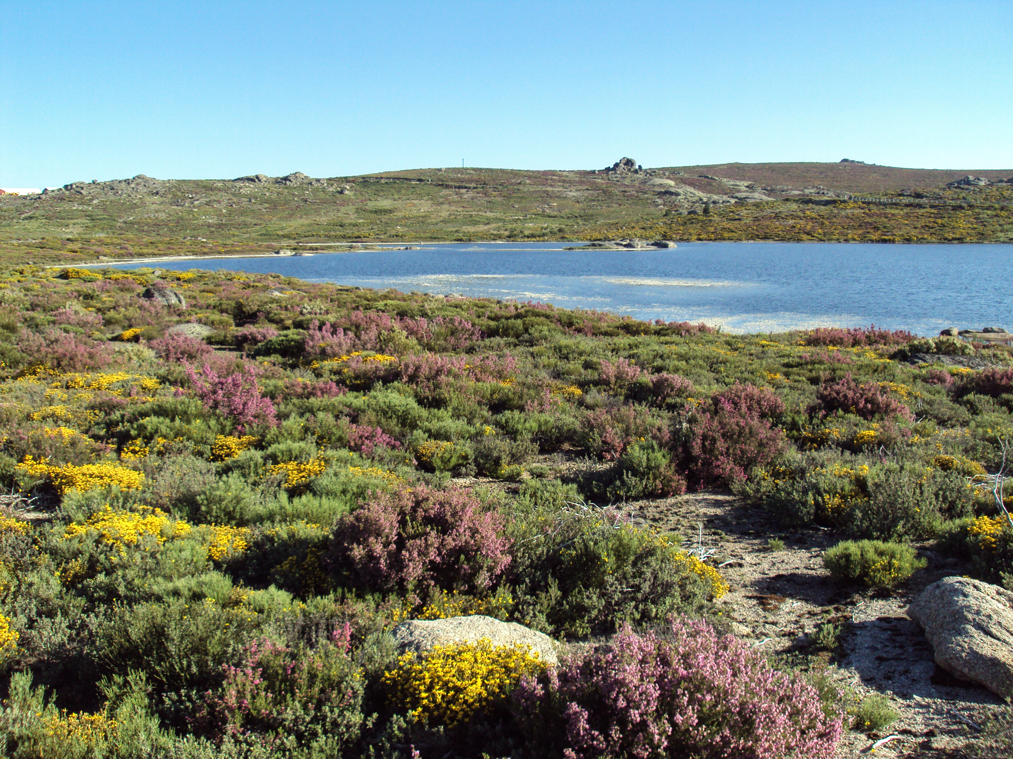 This is a photography of a Site of Community Importance in Portugal with the ID: PTCON0014. Natura2000 entry, EEA entry